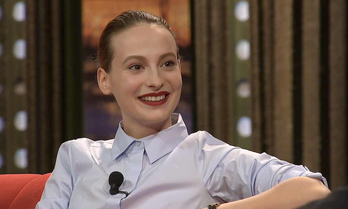 Czech actress Anna Fialová